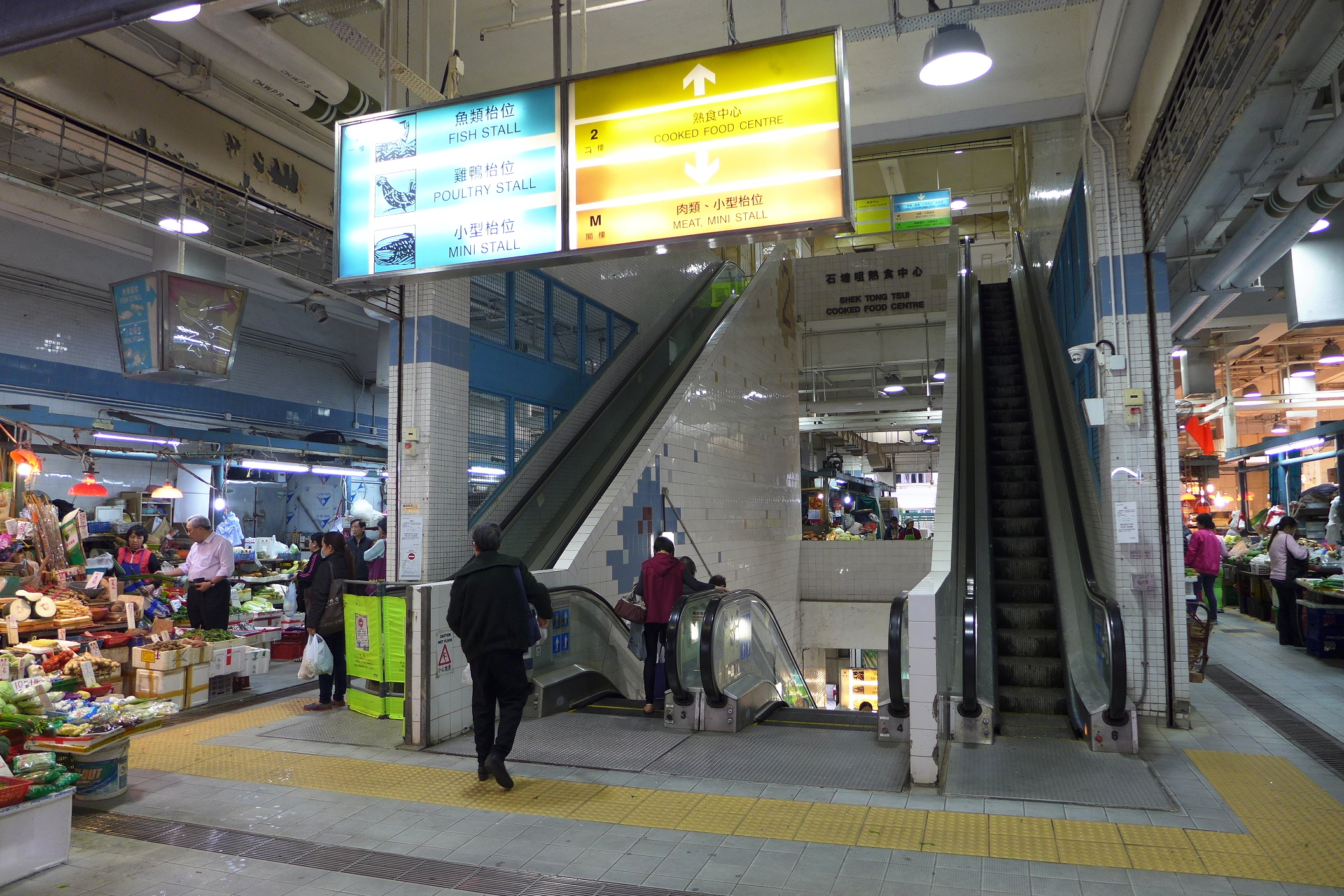 Shek Tong Tsui Municipal Services Building Level 1